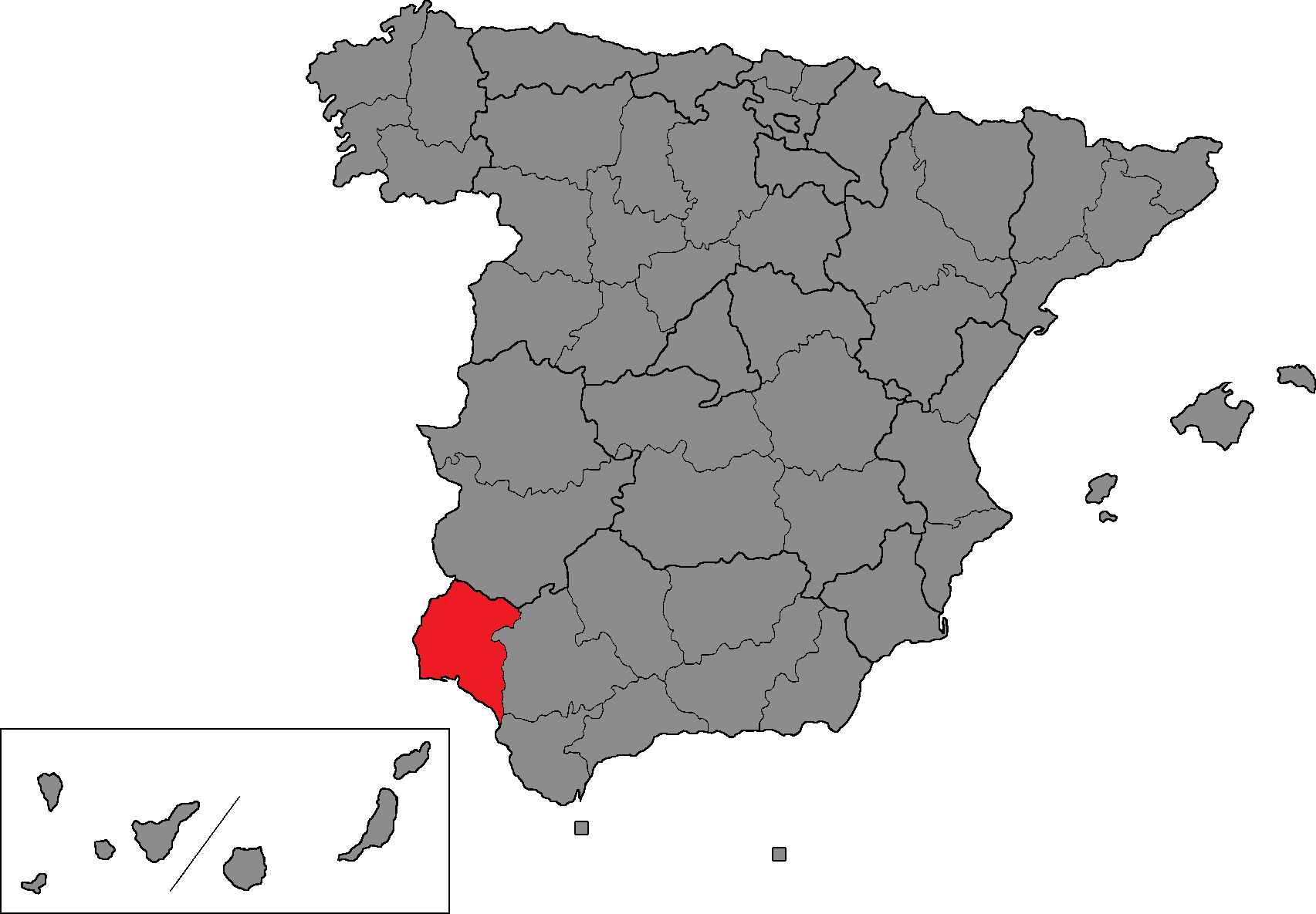 Spanish Congress of Deputies district of Huelva.